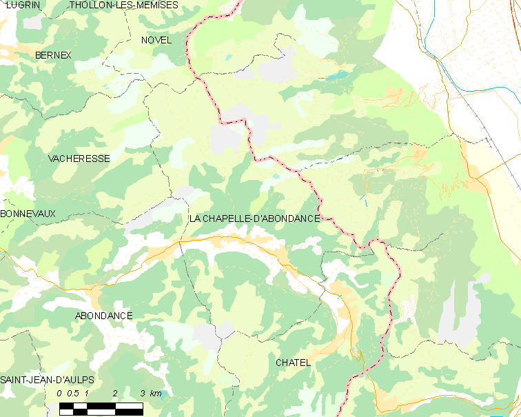 Map of French municipality La Chapelle-d'Abondance